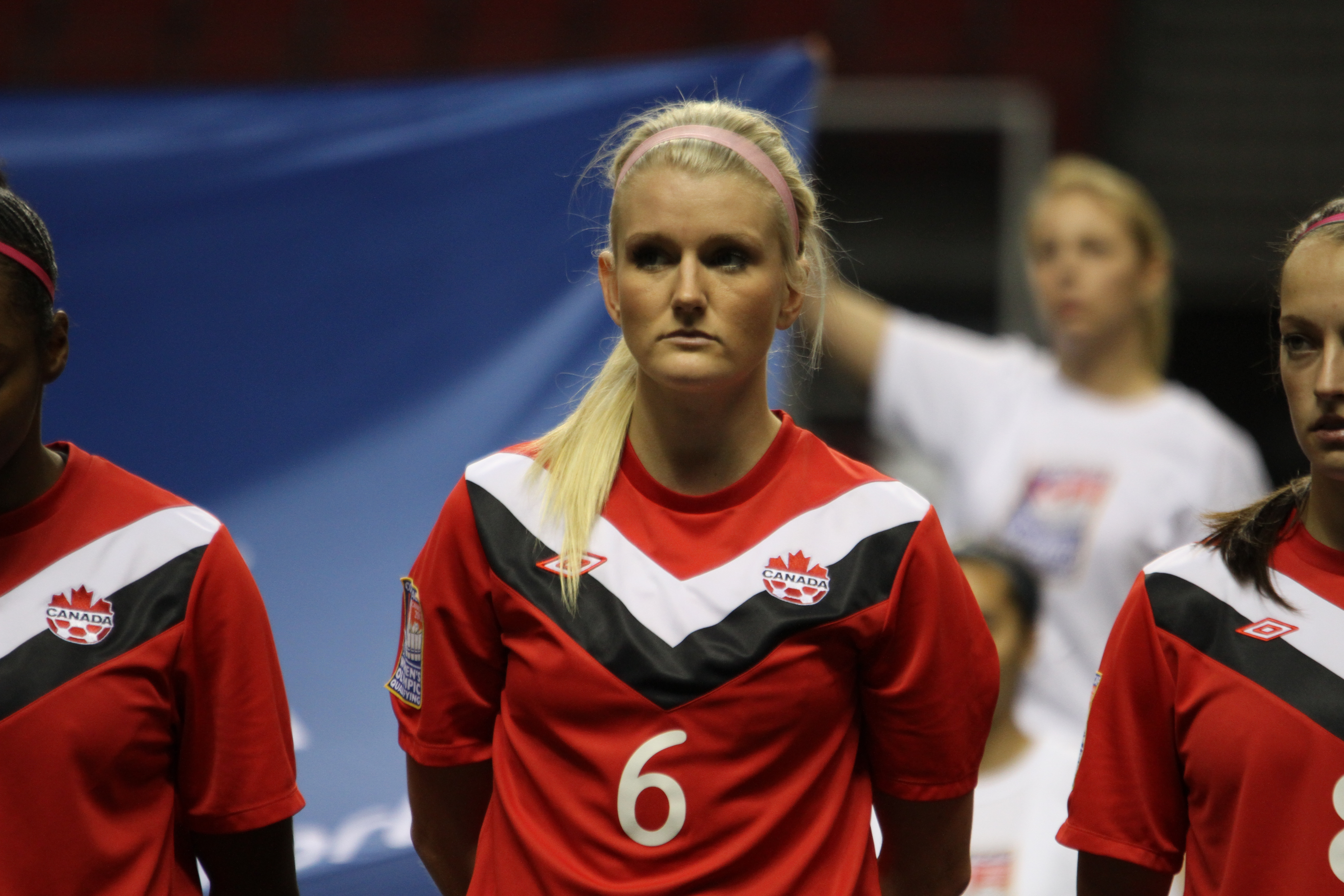 Kaylyn Kyle during Canadian anthem @ Olympic Qualifying in Vancouver, CA.